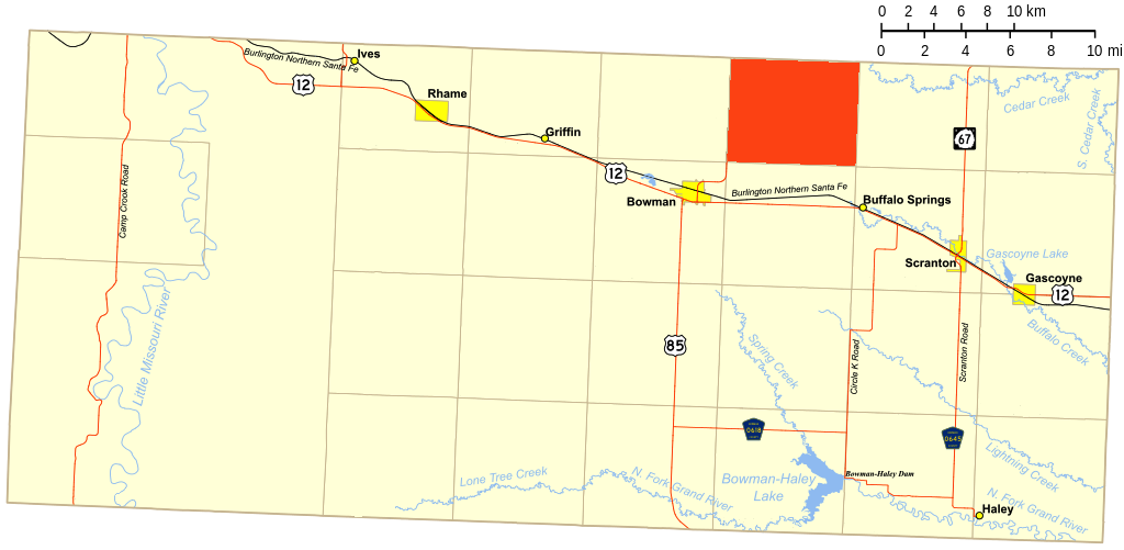 Map of Bowman County, ND, with Greenbelt Township highlighted